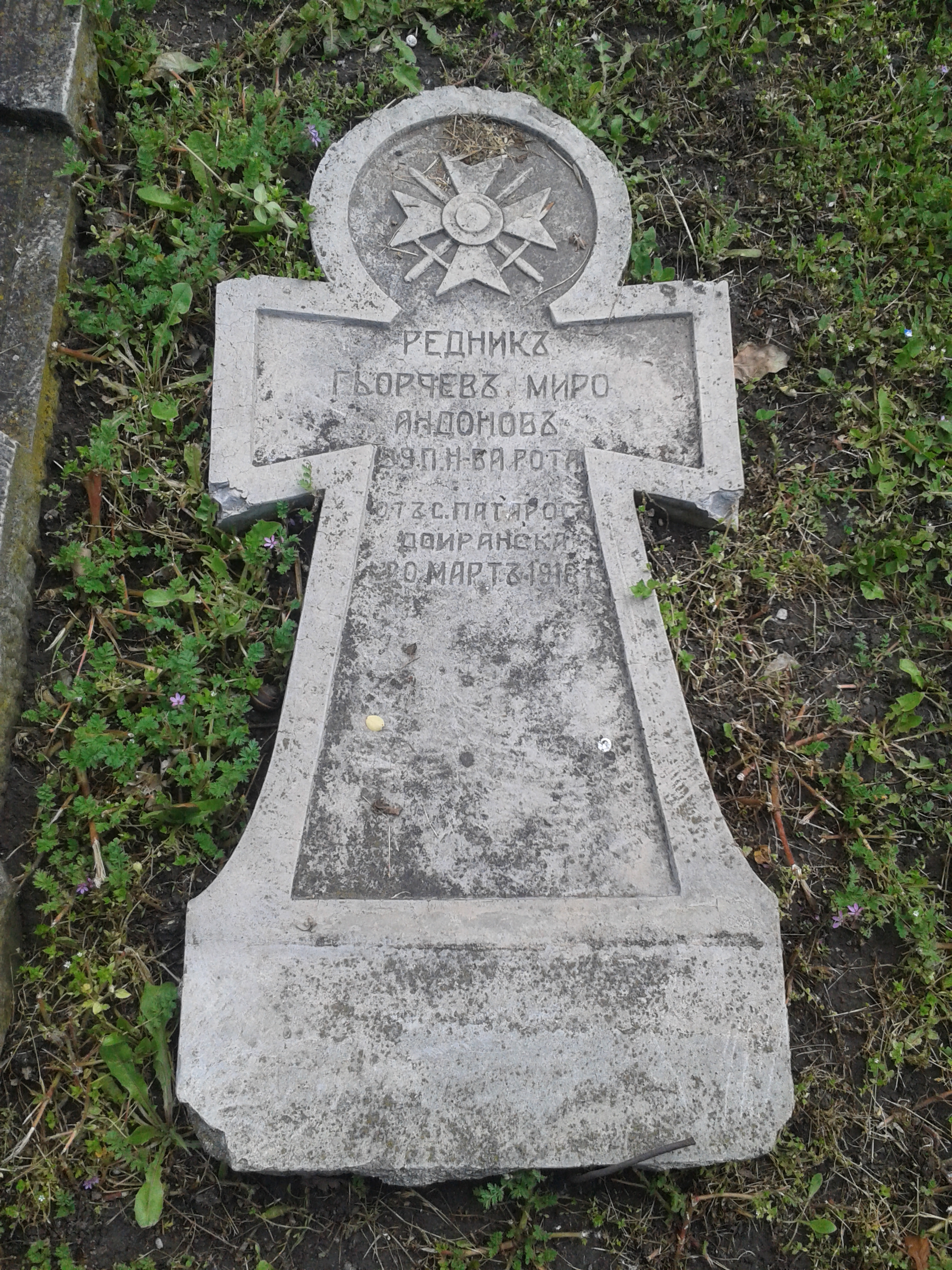 Miro Gyorchev Andonov from Pataros Gravestone.